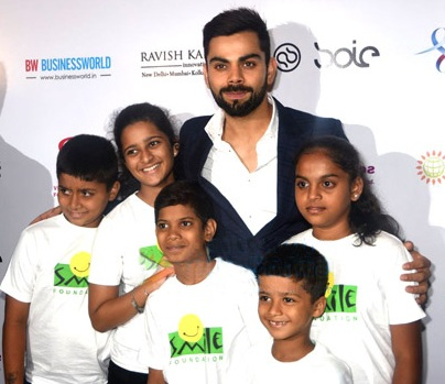 Virat Kohli at the VKF charity dinner for Smile Foundation.